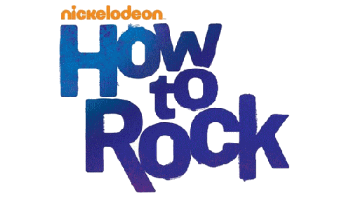 This is a logo for How to Rock